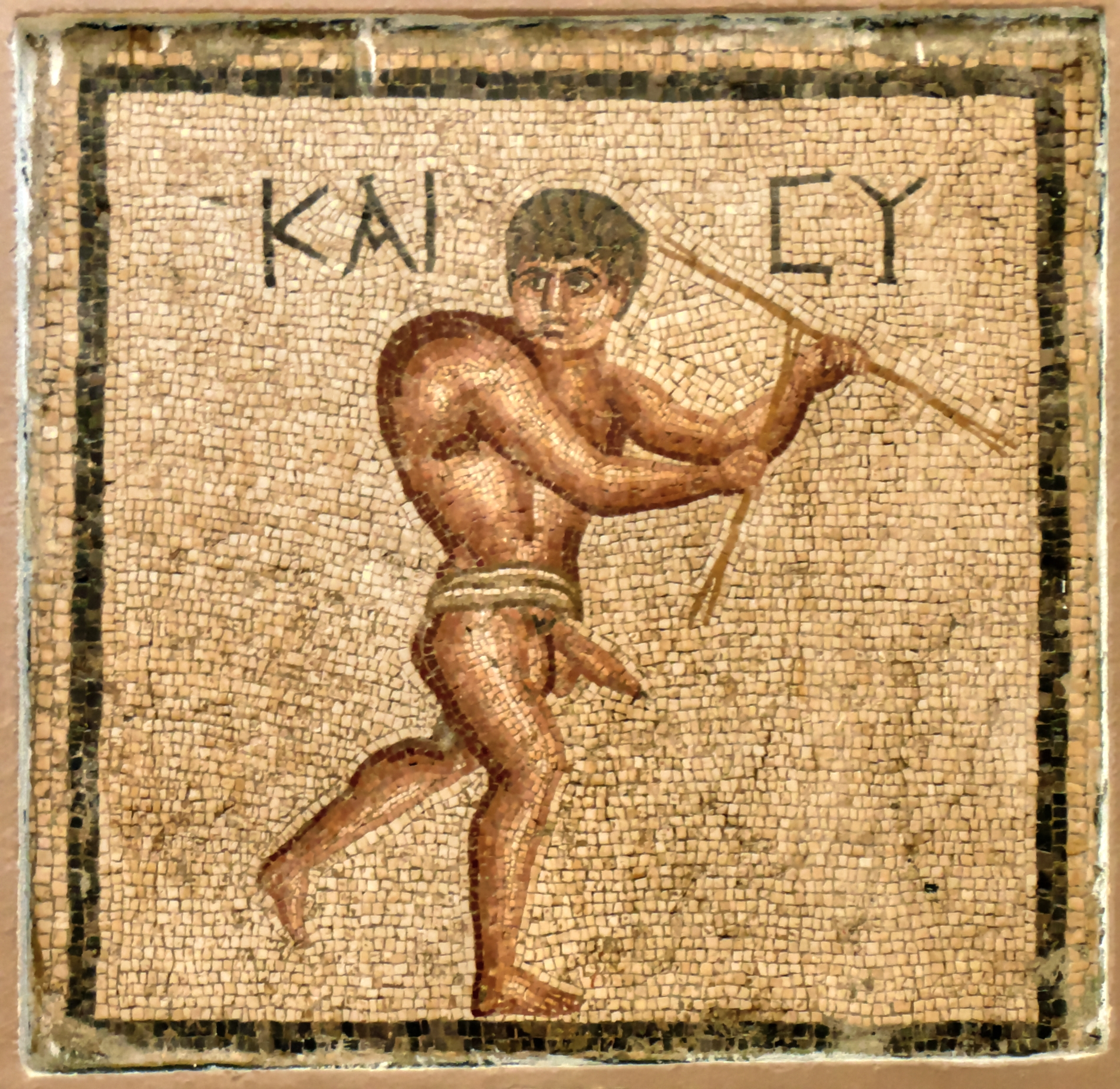 Mosaic from Antakya Archaeological Museum